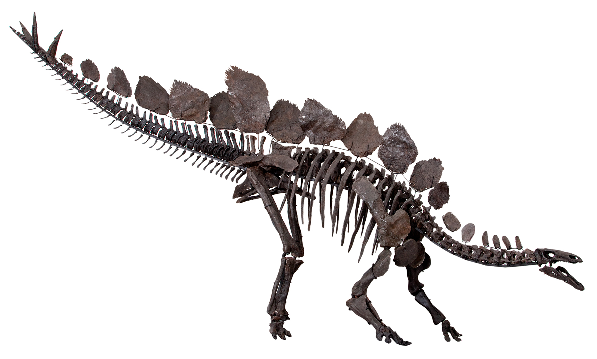 Mounted skeleton of Stegosaurus stenops (specimen NHMUK PV R36730, "Sophie"/"Sarah") in right lateral view at the Natural History Museum, London.